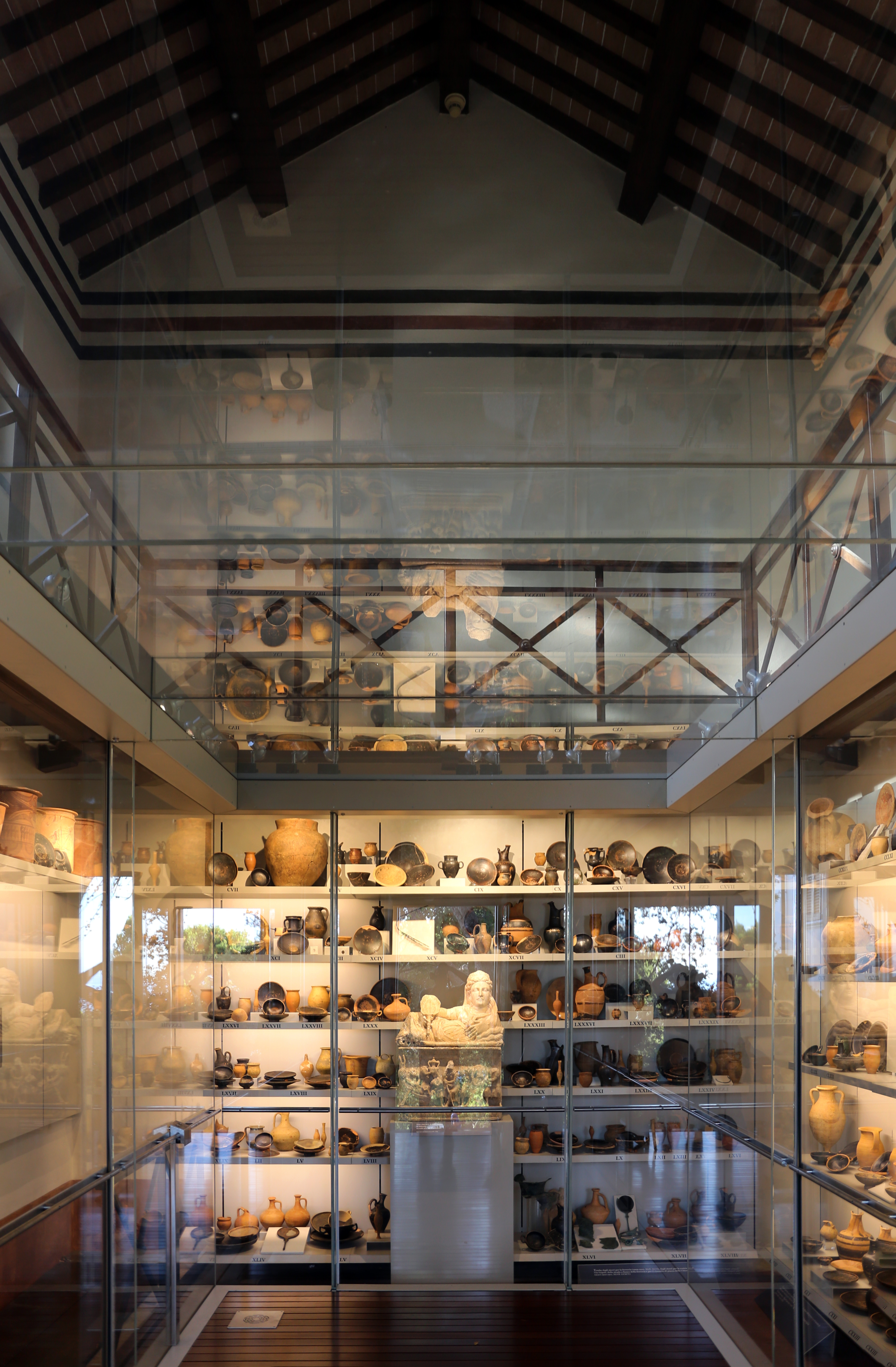 Museo comunale archeologico La Cinquantina